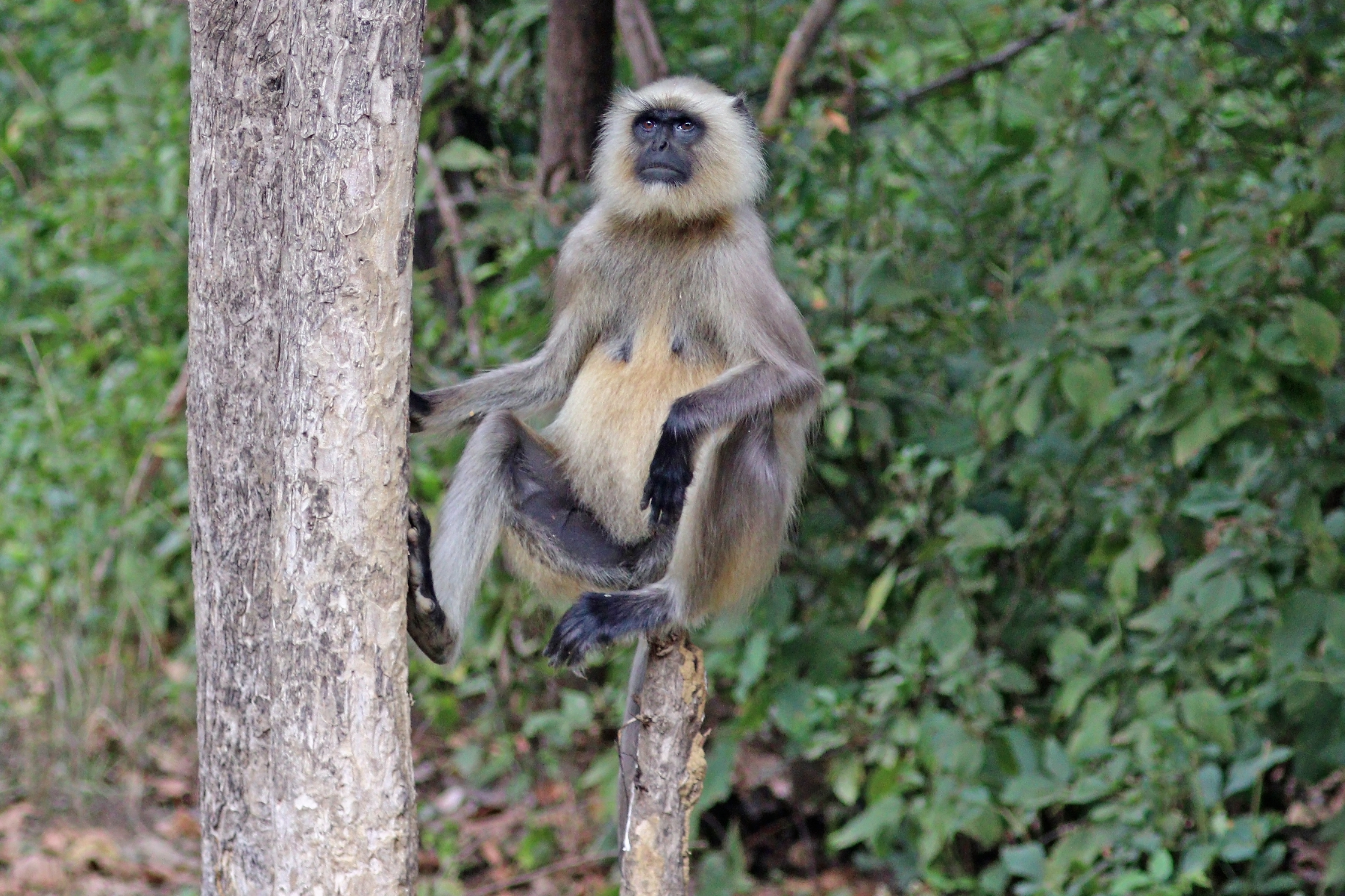 Southern plains grey langur (Semnopithecus dussumieri) female, Kanha National Park, MP, India